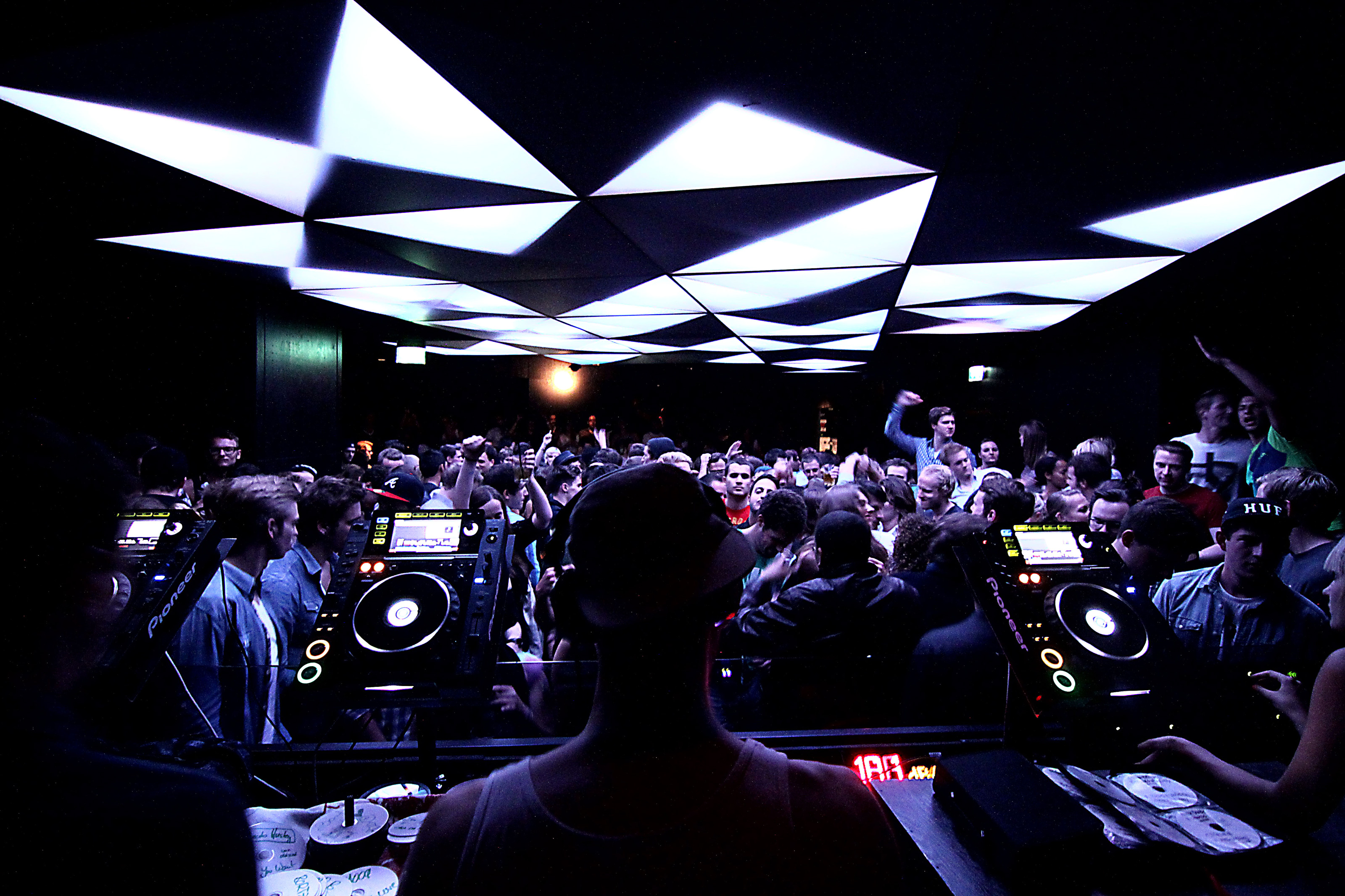 Techno club Bob Beaman in Munich.